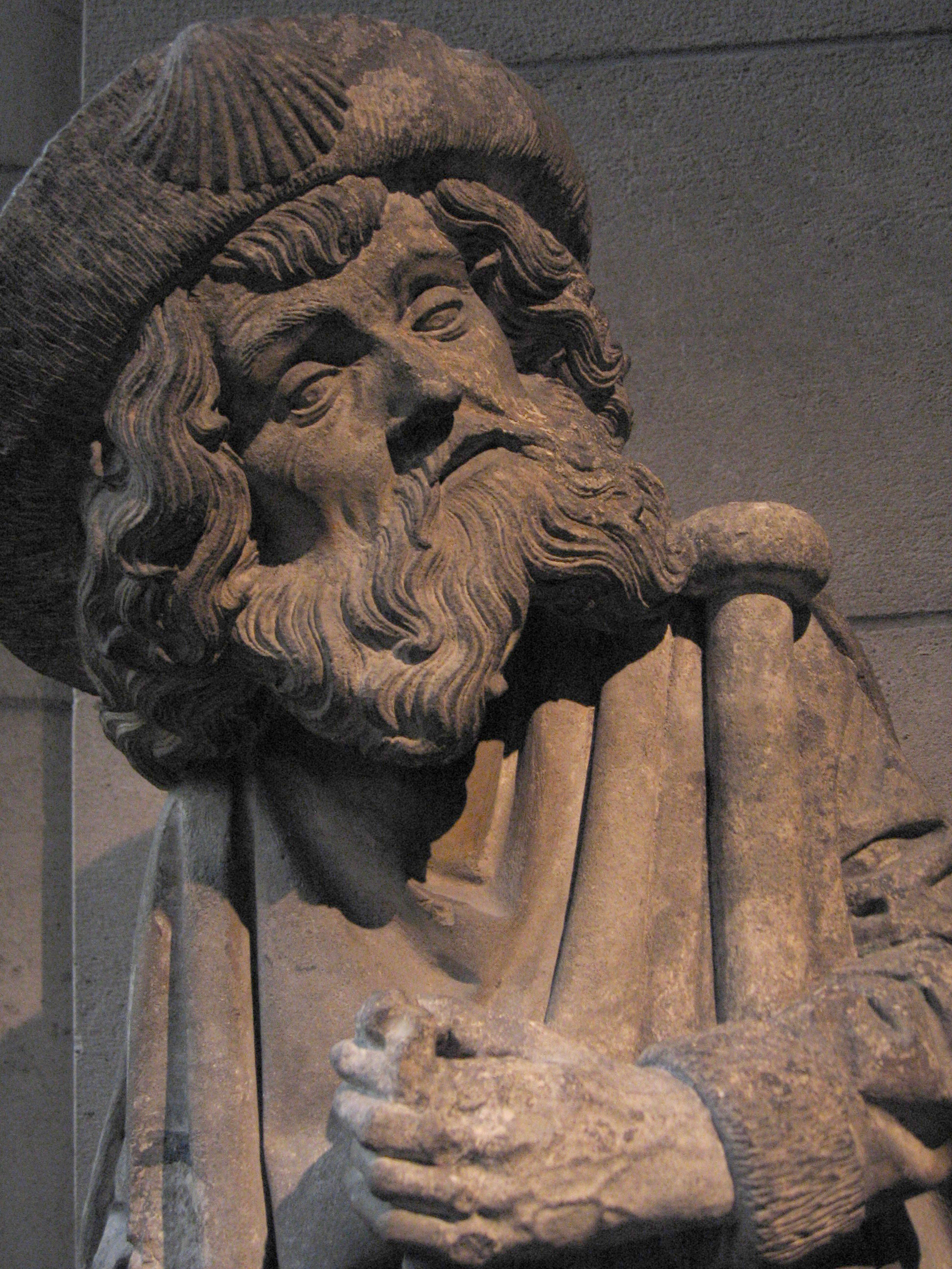 Saint James the Greater (detail), last quarter of 15th century. French, Burgundy. Limestone, formerly polychromed. Metropolitan Museum of Art, New York City. Bequest of Isaac D. Fletcher, 1917.